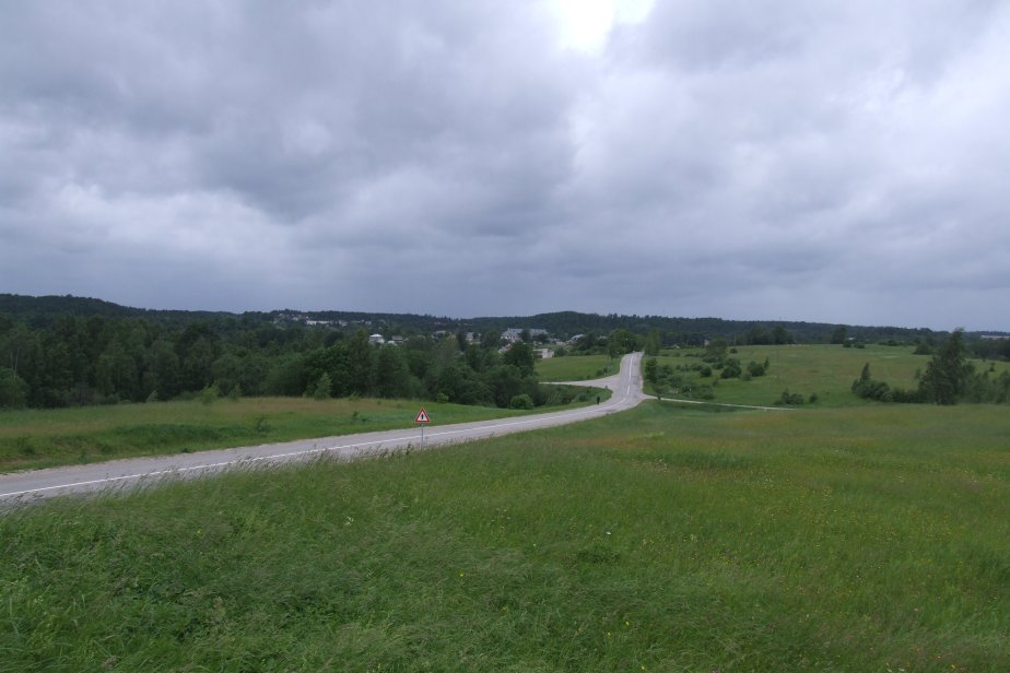 Road to Ērgļi (P78)